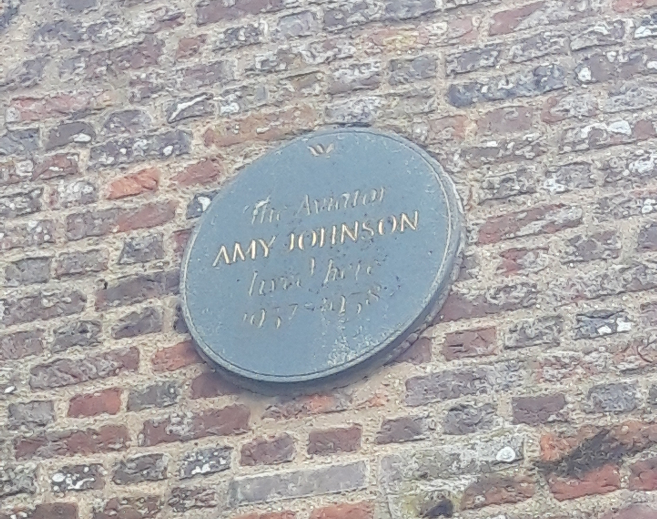 A plaque which commemorates the fact that the pilot Amy Johnson lived at that address in Princes Risborough from 1937–1938.